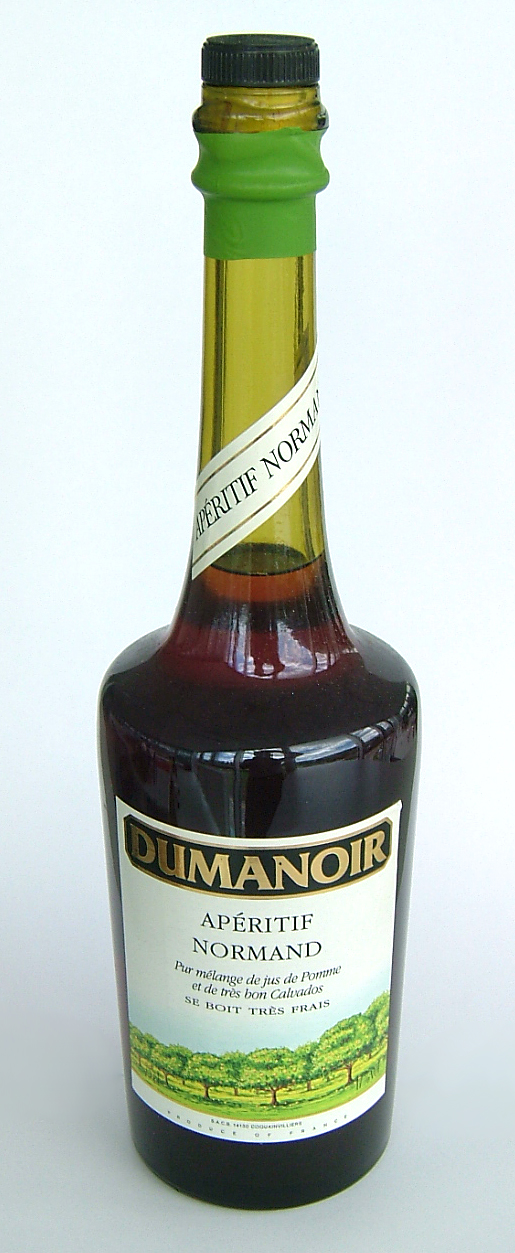 750 ml bottle of Pommeau